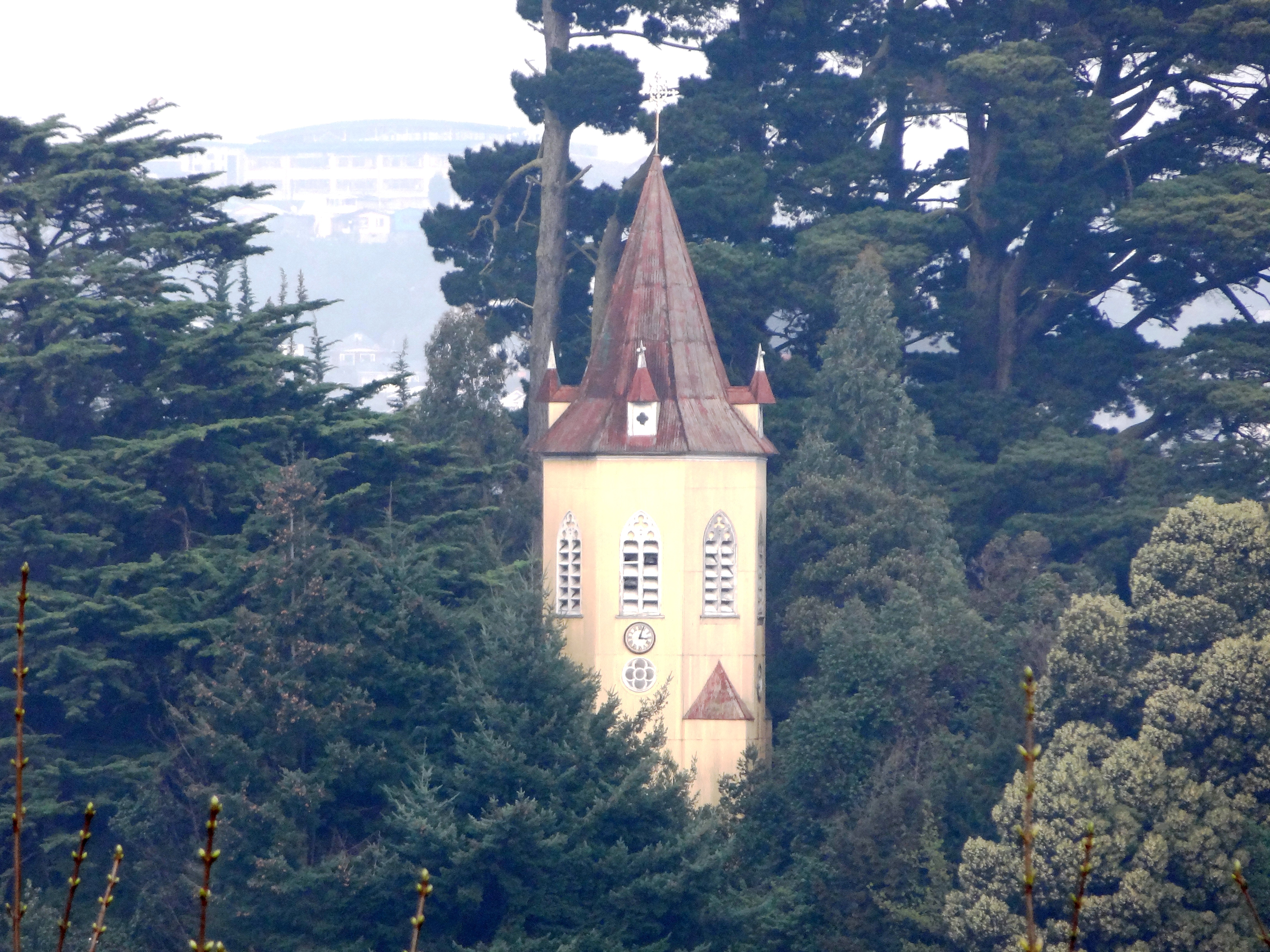 The Bell Tower of San Francisco Javier College of Puerto Montt, dating from 1894, is a wood structured building.Traditional climate Vista.